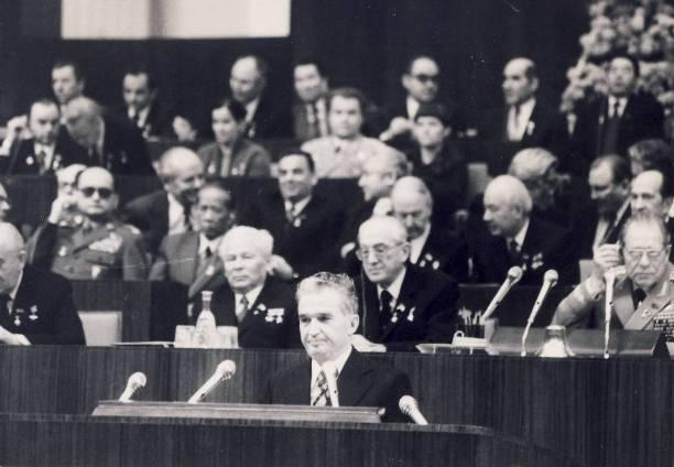 Nicolae Ceauşescu in Moscow at the 60th anniversary of the USSR